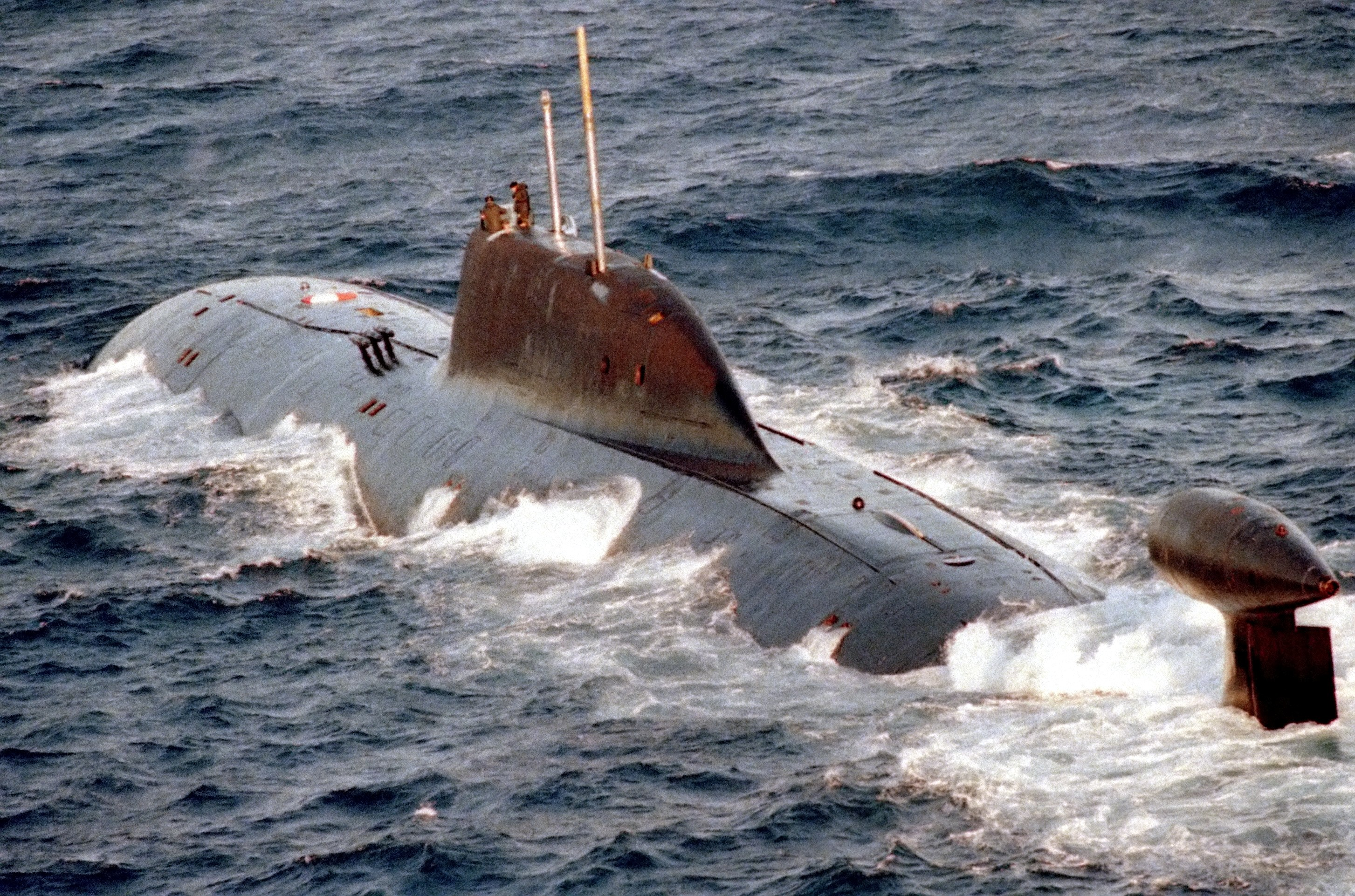 K-322 Cachalot, Akula class submarine underway. A port quarter aerial view of the Russian Northern Fleet AKULA class nuclear-powered attack submarine underway on the surface.